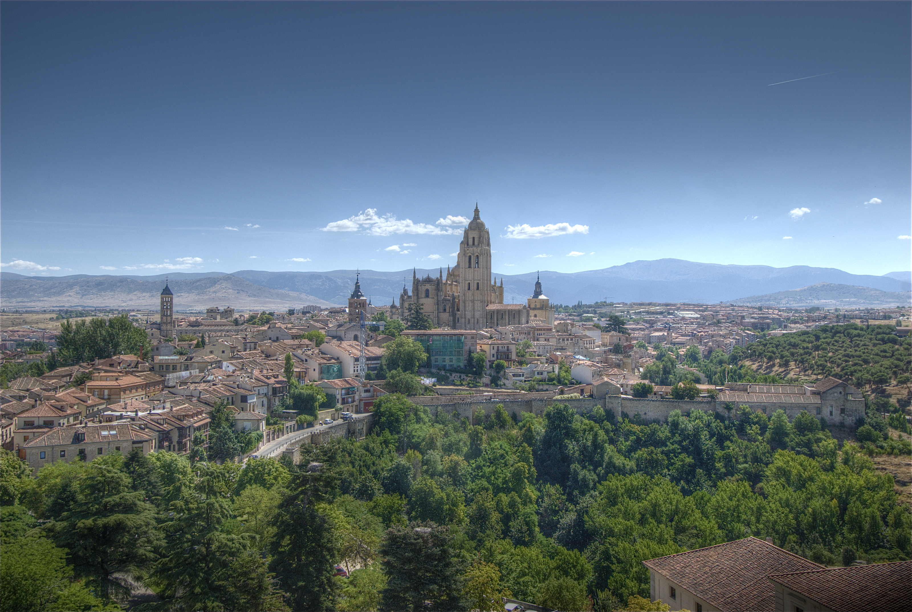 View over the city of Segovia from the Castle Alcázar